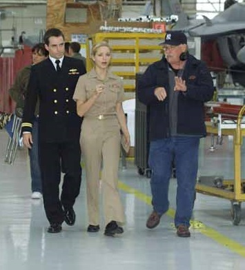 Director Vern Gillum goes over a scene with Chris Beetem (Lt. Greg Bukovic) and Jordana Spiro (Lt. Catherine Graves), for CBS's JAG, at NAVAIR Depot North Island.